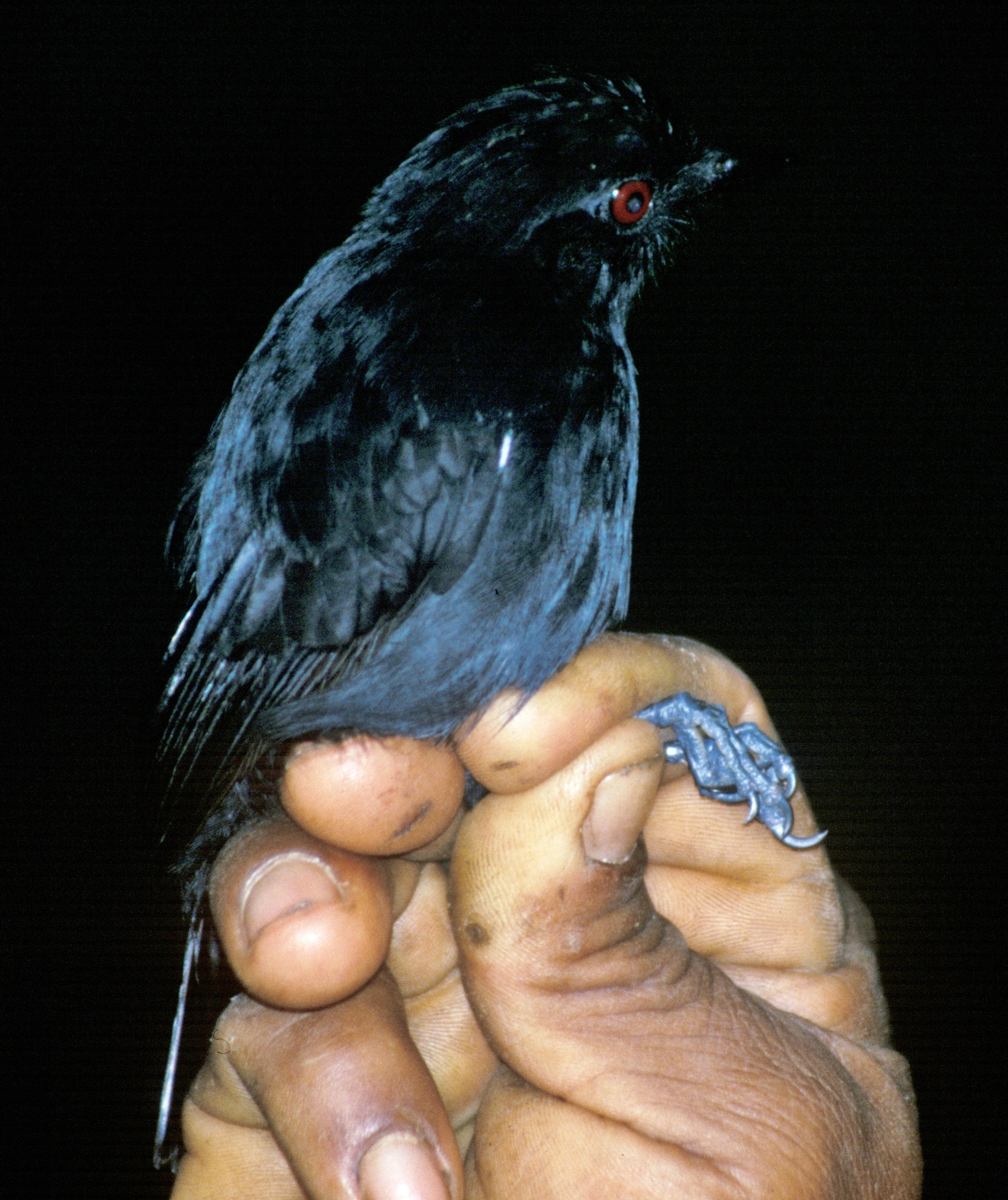 White-shouldered Antshrike (Thamnophilus aethiops). Male from Cordillera del Cóndor, Ecuador.